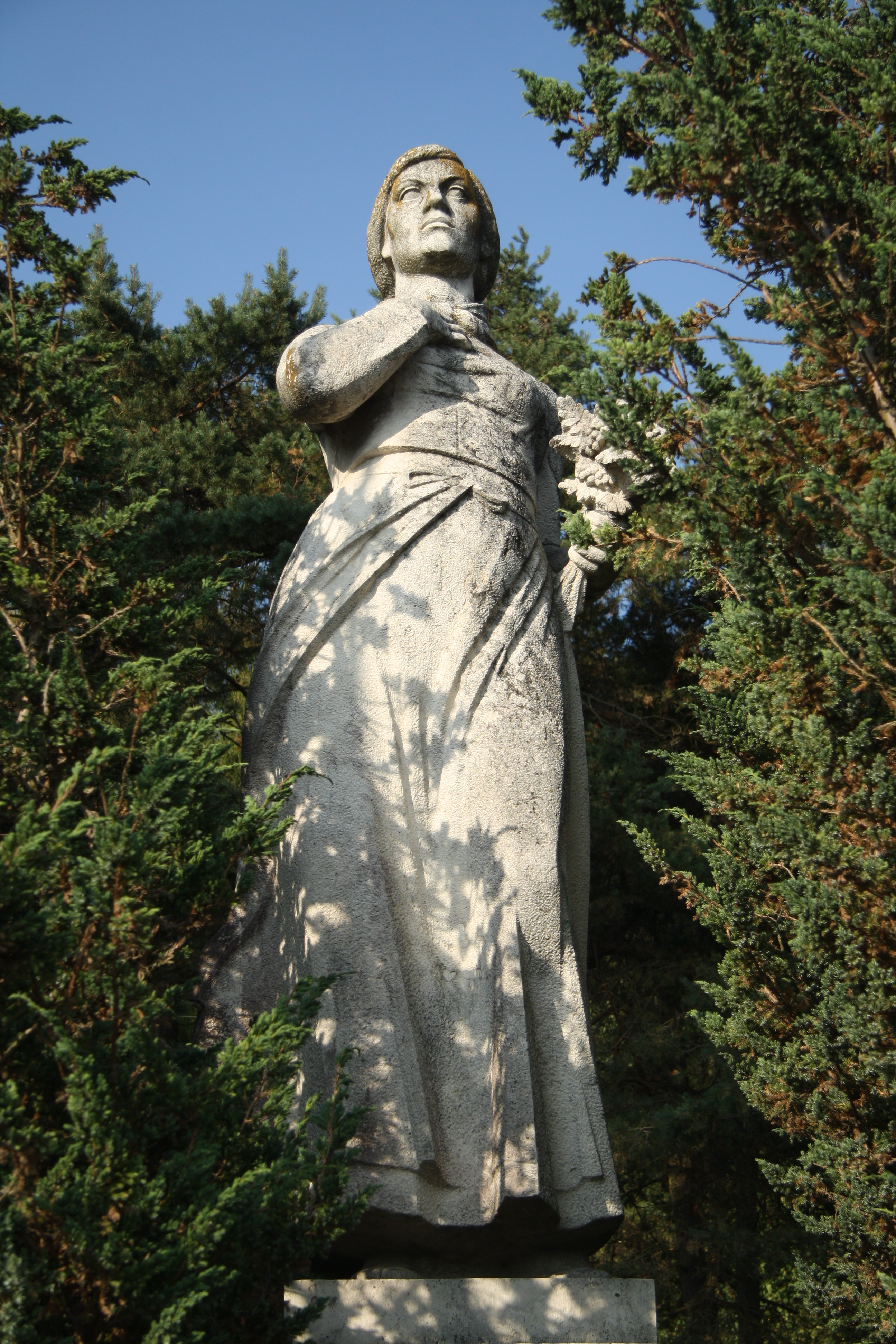 Detail of statue Matka Vysočiny in Velké Meziříčí, Žďár nad Sázavou District.